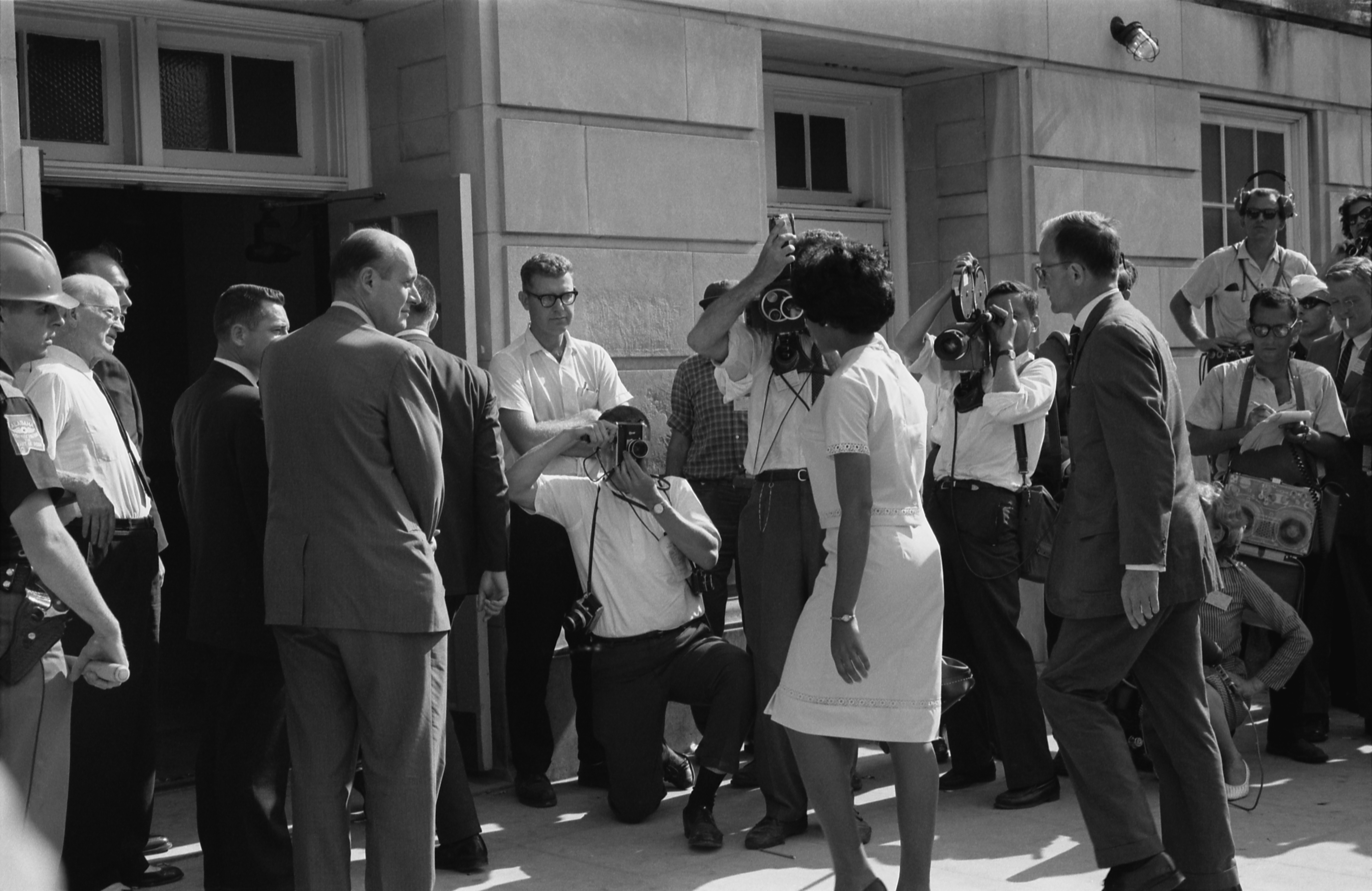 Vivian Malone entering Foster Auditorium to register for classes at the University of Alabama. Vivian Malone, one of the first African Americans to attend the university, walks through a crowd that includes photographers, National Guard members, and Deputy U.S. Attorney General Nicholas Katzenbach.